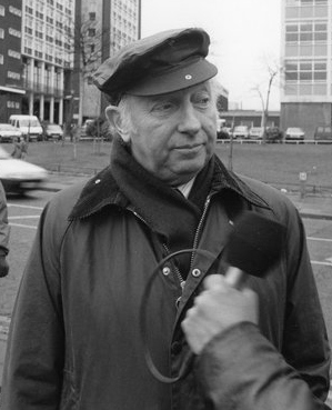 Arthur Scargill on a demonstration rally against pit closures outside University of Sunderland's Edinburgh Building on Chester Road. Photographer: Les Golding To see the full set: (Copyright) We're happy for you to share this digital image within the spirit of The Commons. Please cite 'Tyne & Wear Archives & Museums' when reusing. Certain restrictions on high quality reproductions and commercial use of the original physical version apply though; if you're unsure please . To purchase a hi-res copy please quoting the title and reference number.